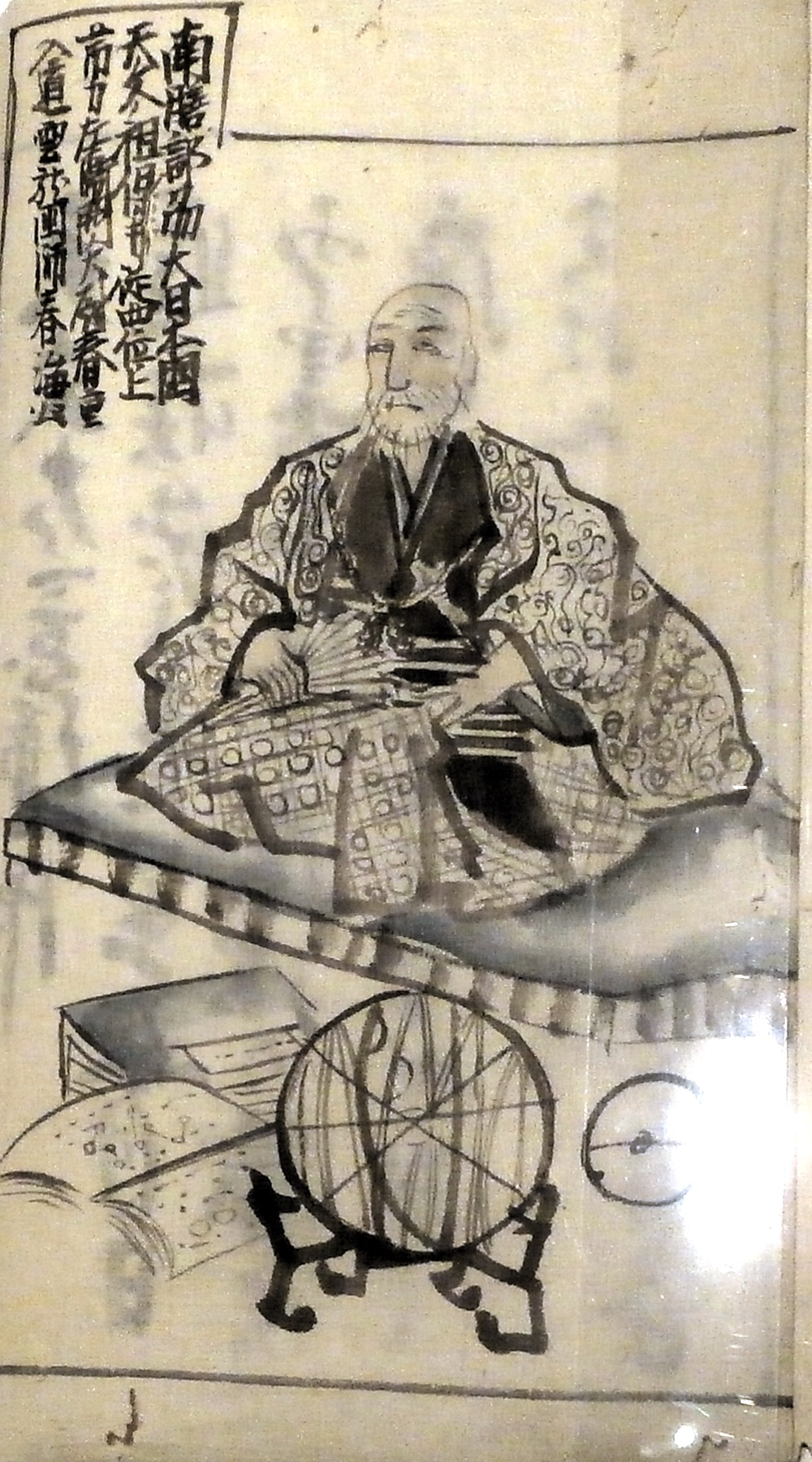 SHIBUKAWA Shunkai from Japanese book "Tenmon-Taii-Roku" written by Houseido Kousei in about 1826. Exhibit in National Museum of Nature and Science, Tokyo "Planned Exhibition: SHIBUKAWA Shunkai and the succeeding astronomers of the Edo Period".